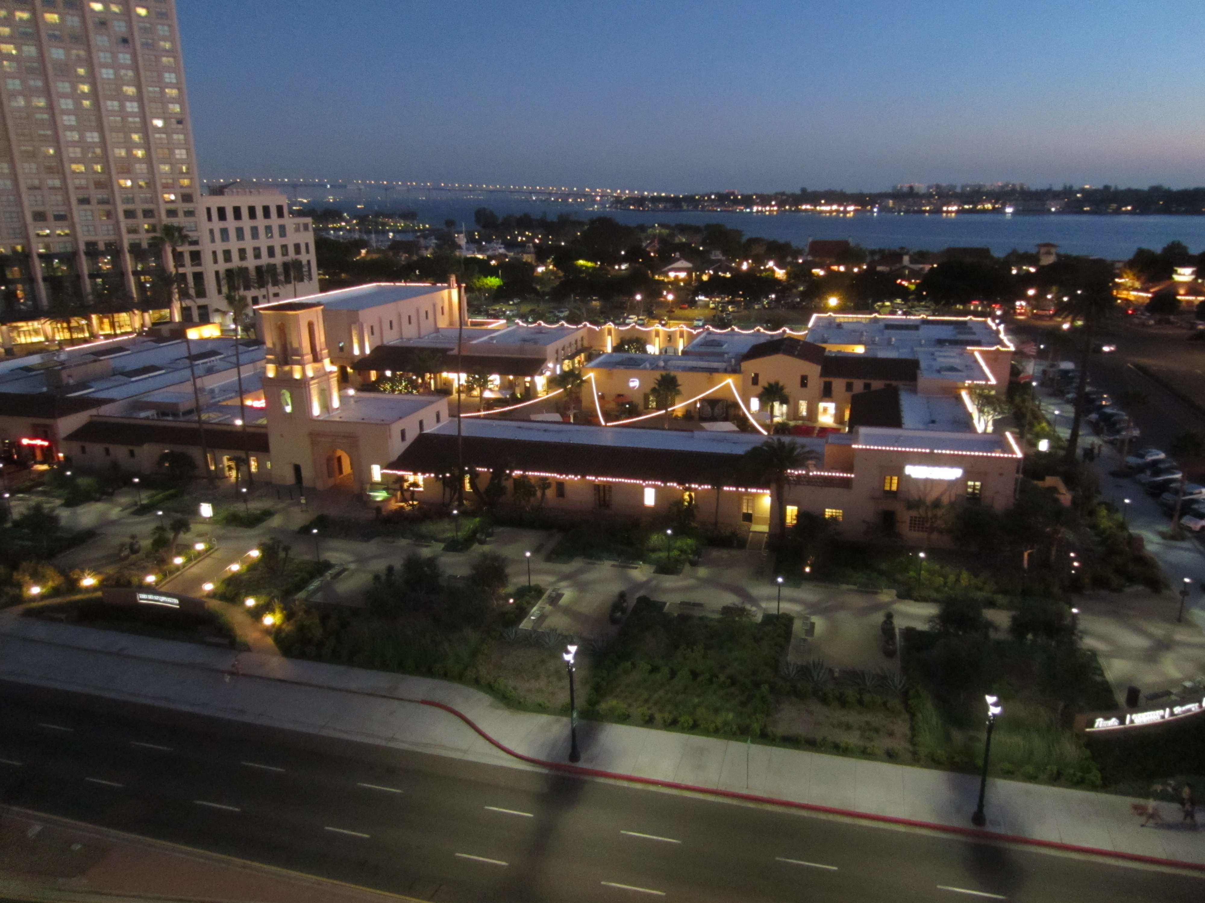 The Headquarters at Seaport Village (as seen from the Embassy Suites across the street), San Diego, 2016